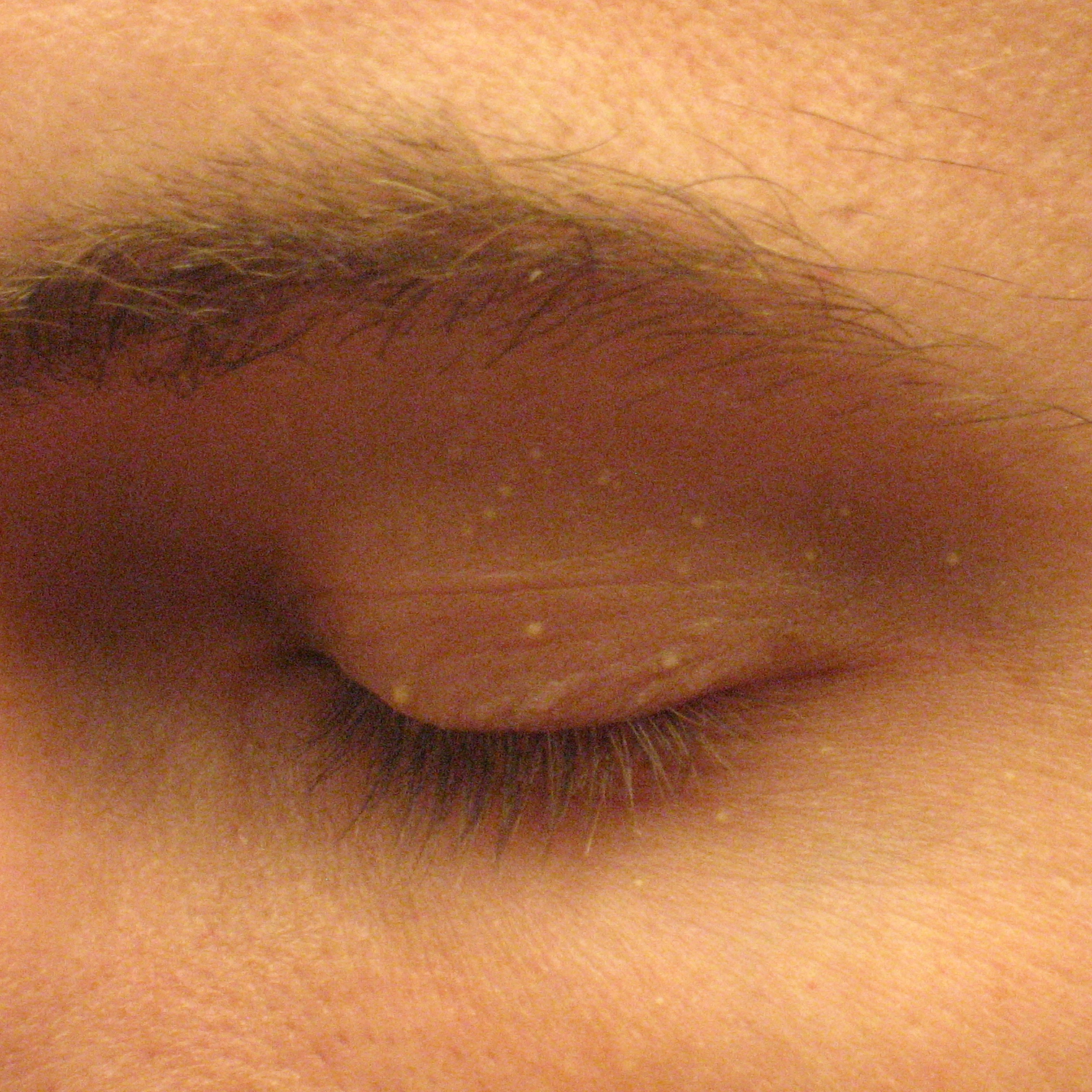 Milia on the eyelid of an adult male